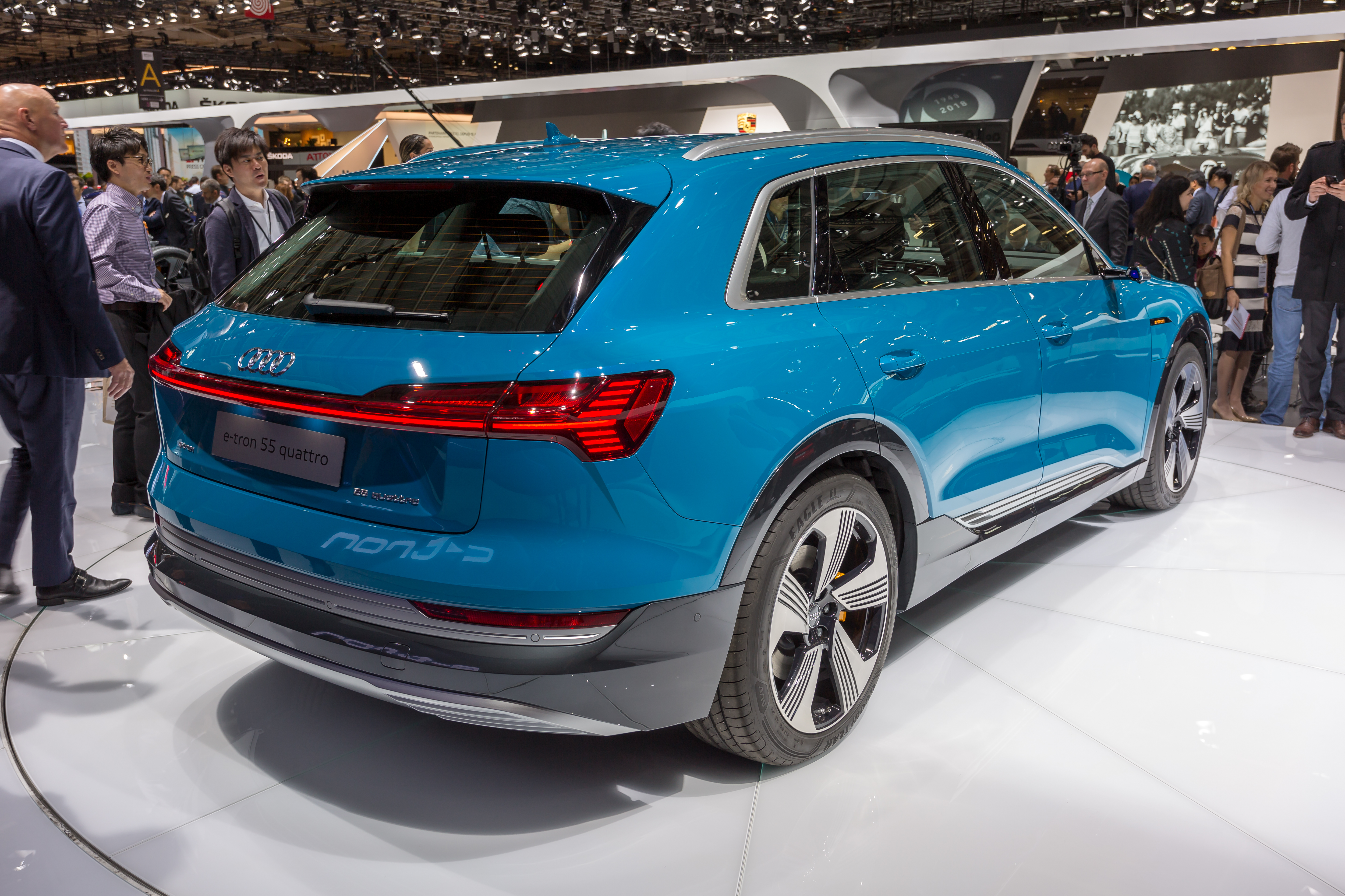 Audi e-tron 55 quattro, Mondial Paris Motor Show 2018